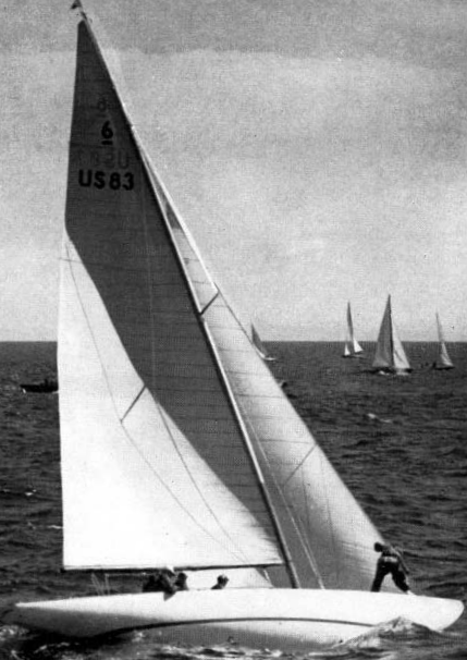 A 6 Metre during the 1952 Olympics